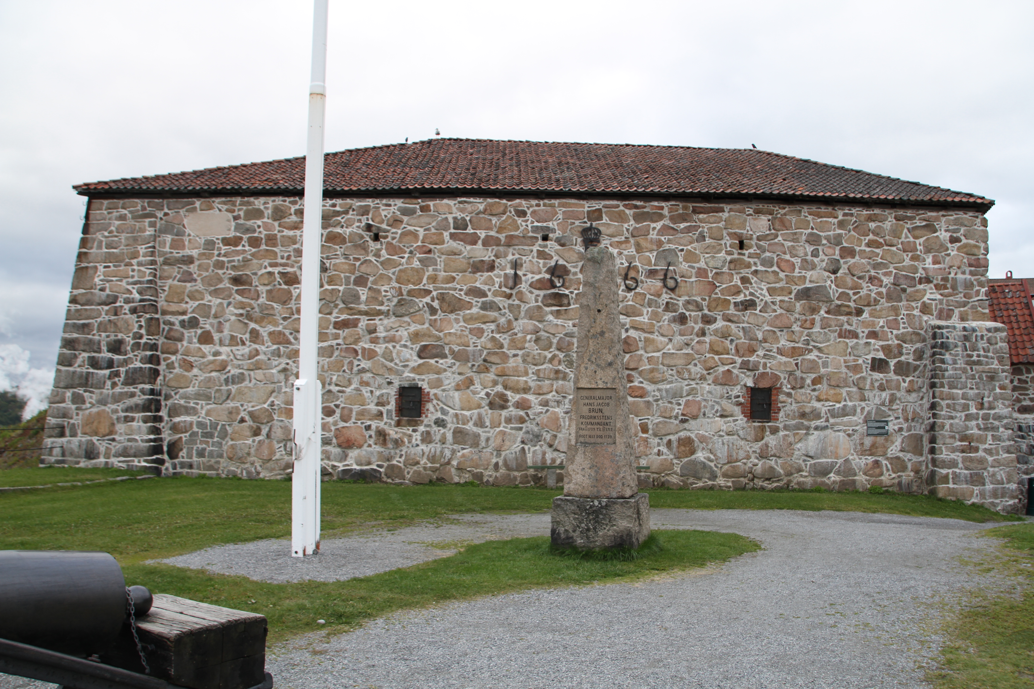 Fredriksten fortress in the city of Halden (Østfold), southeastern Norway